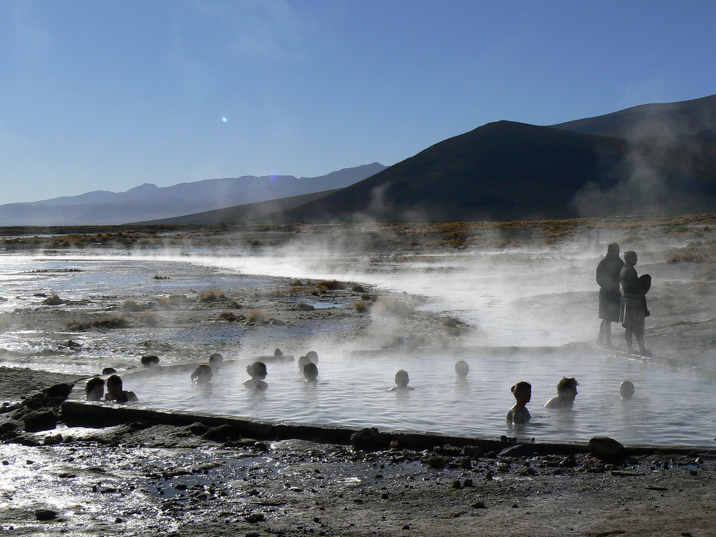 We went bathing here at around 7am when the outside temperature had reached about zero degrees. Lush!